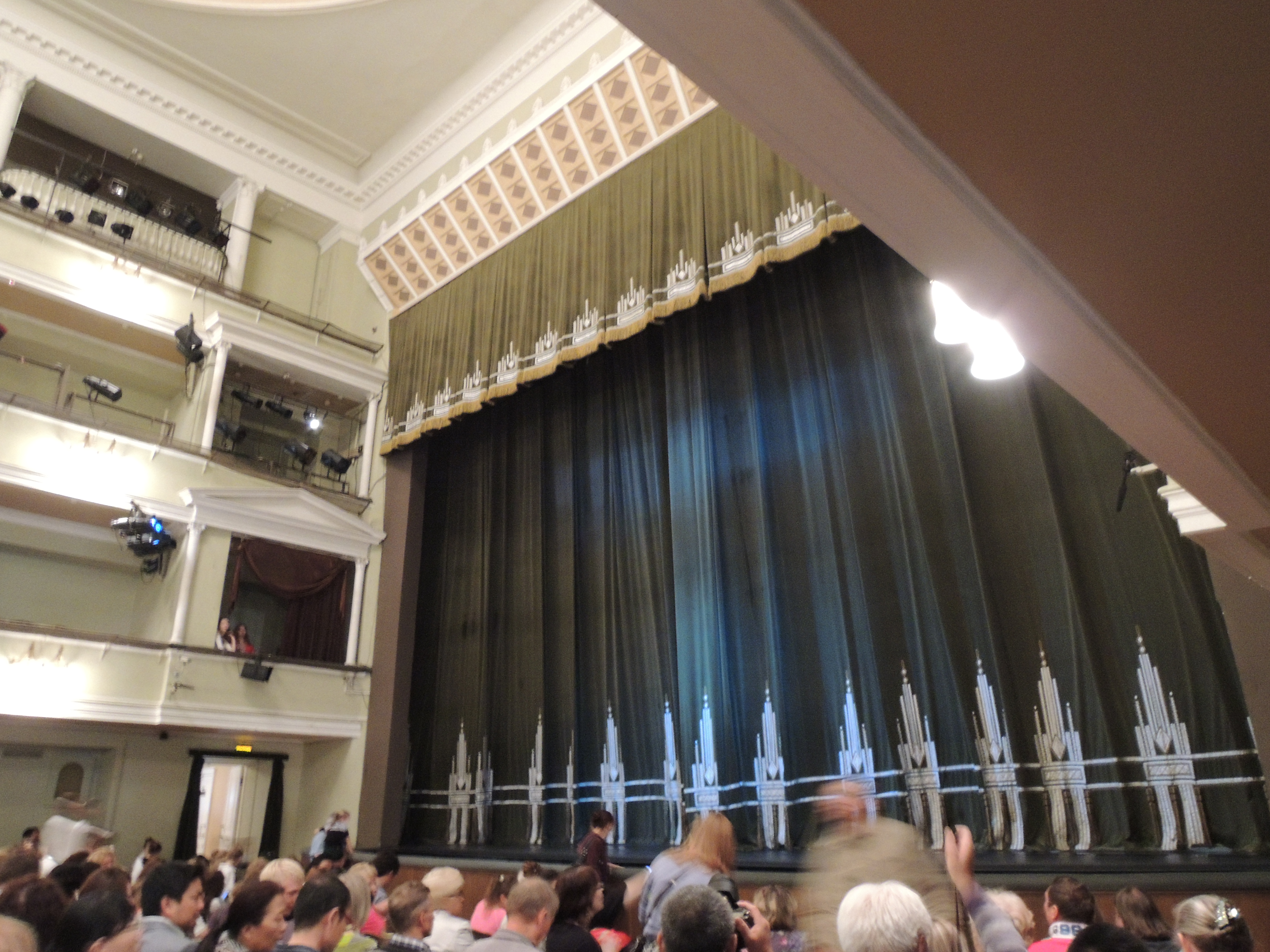 RAMT theatre interior 01 by shakko